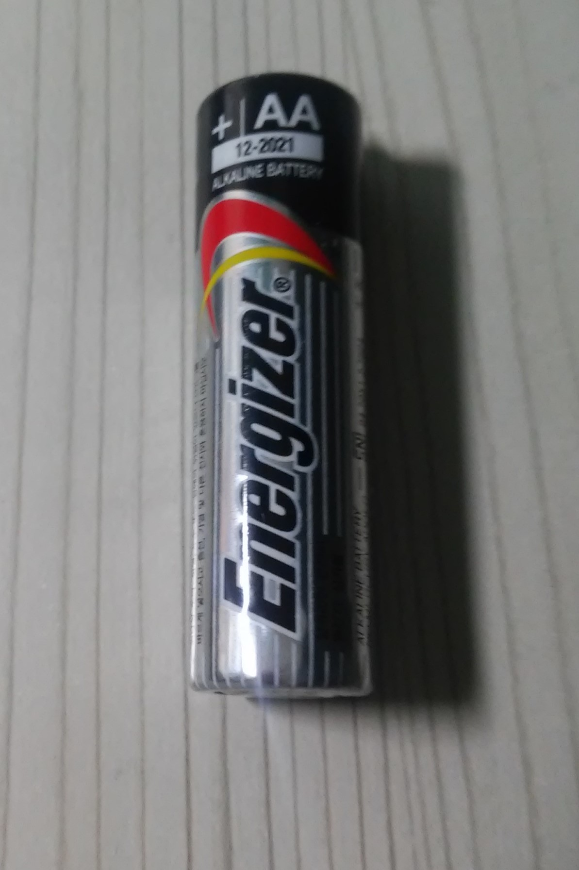 Energizer battery